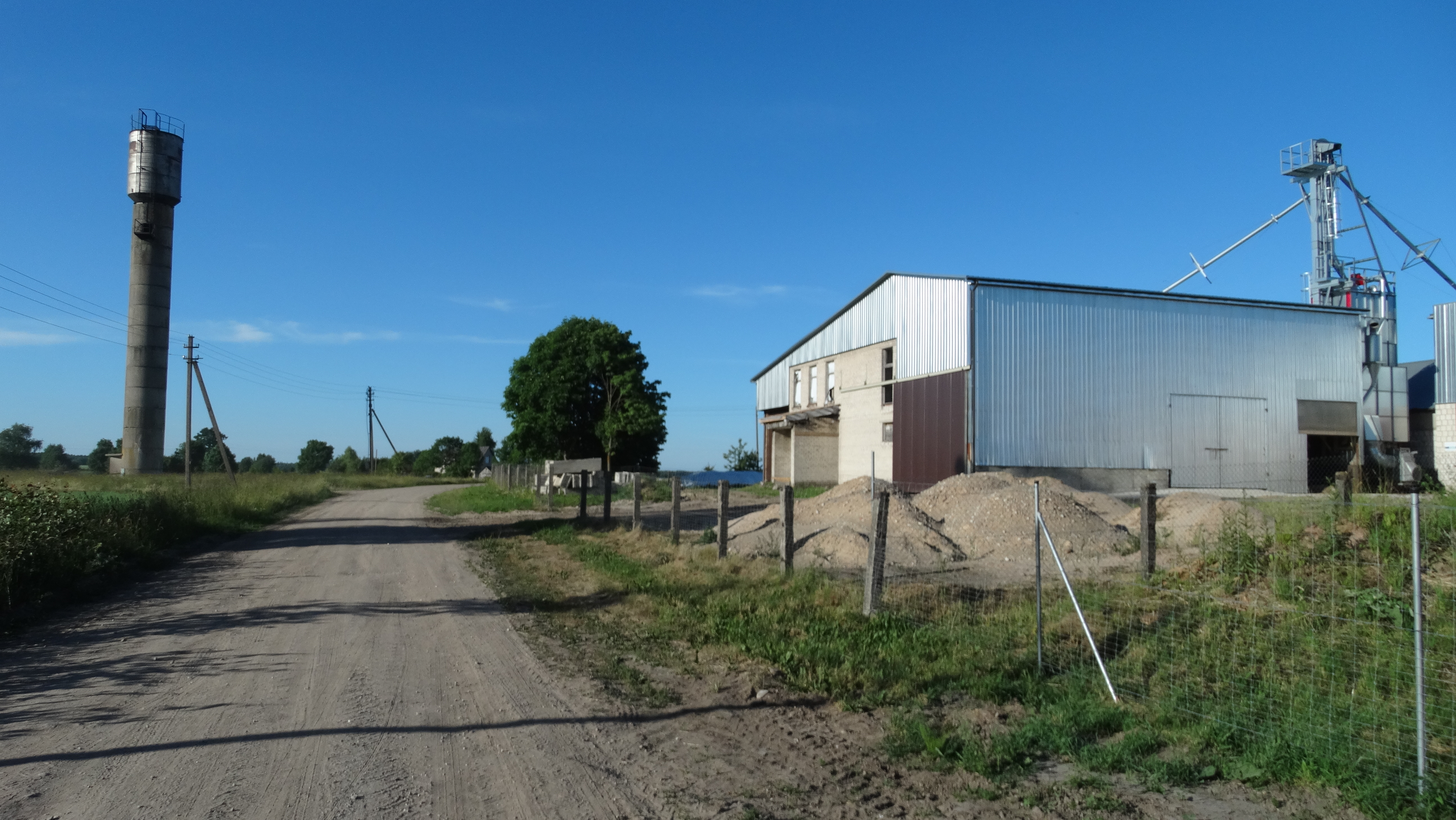 Šimkaičiai, Raseiniai District, Lithuania